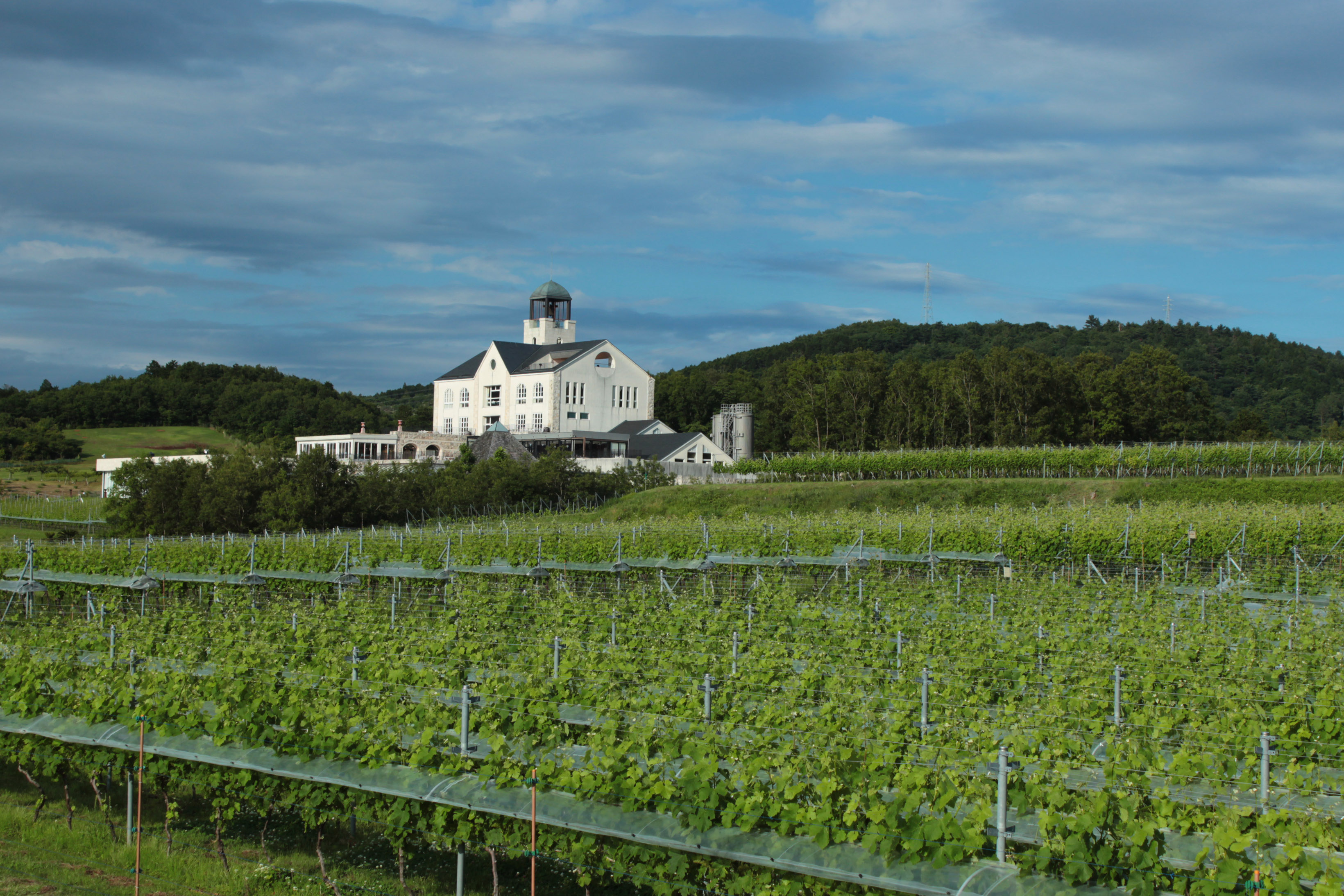 Nakaizu Winery Hills in Izu, Shizuoka Prefecture, Japan.